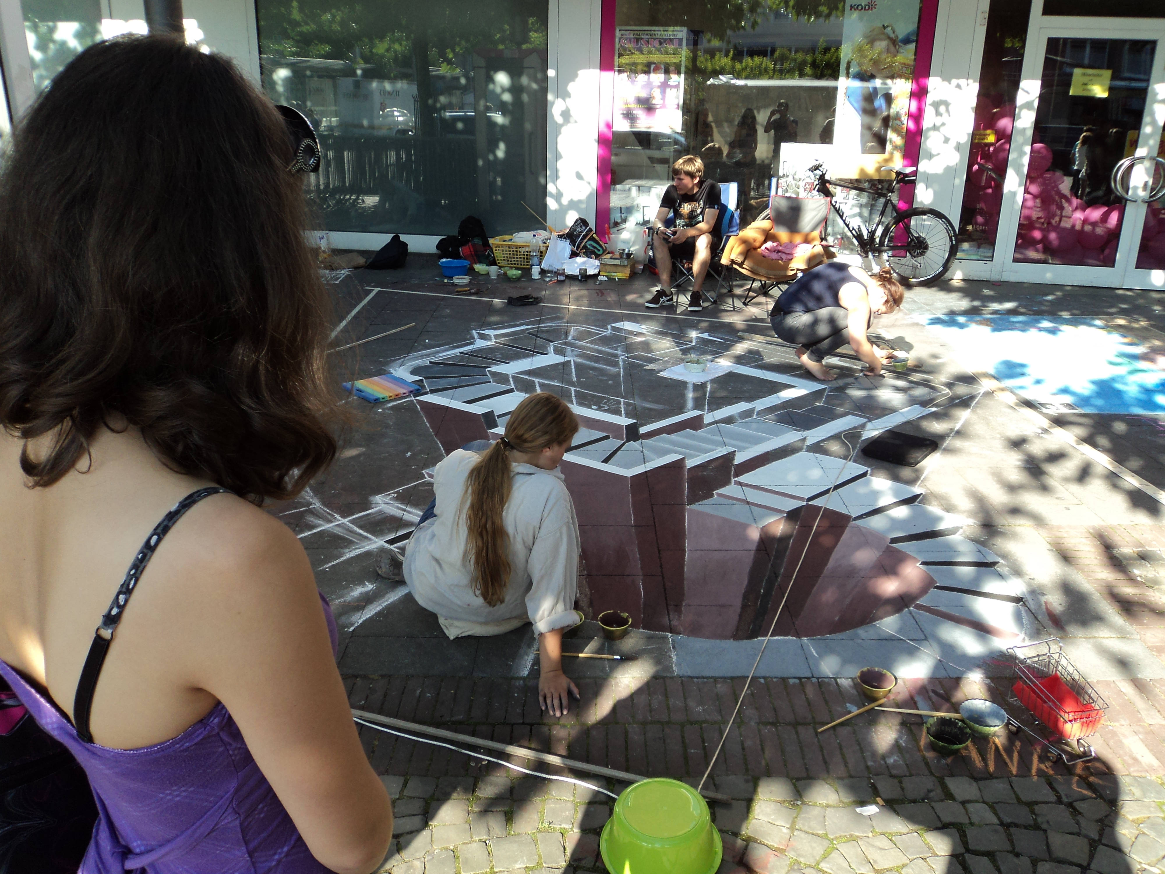 Street painting in Geldern 2011